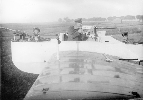 A Gotha-Ursinus GUH G.I cockpit section with Oskar Ursinus in the front gunners position aiming an early 20mm aircraft autocannon. PictionID:43640761 - Catalog:16_004719 - Title:Gotha-Ursinus GUH G.I 1916 Nowarra photo - Filename:16_004719.TIF - - - - - - - Image from the Ray Wagner Collection. Ray Wagner was Archivist at the San Diego Air and Space Museum for several years and is an author of several books on aviation --- ---Please Tag these images so that the information can be permanently stored with the digital file.---Repository: San Diego Air and Space Museum